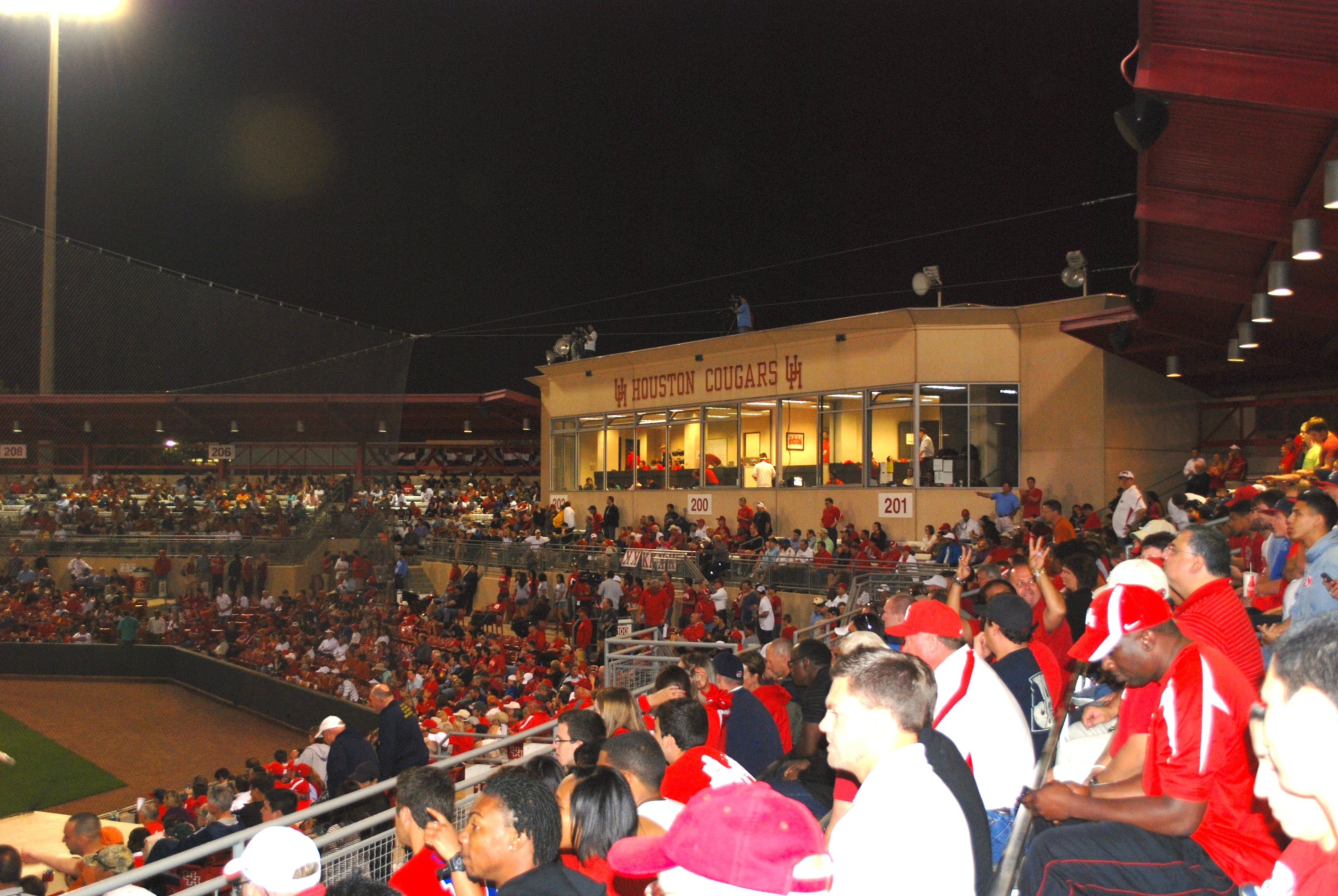 The stands at Cougar Field on the campus of the University of Houston during a baseball game.